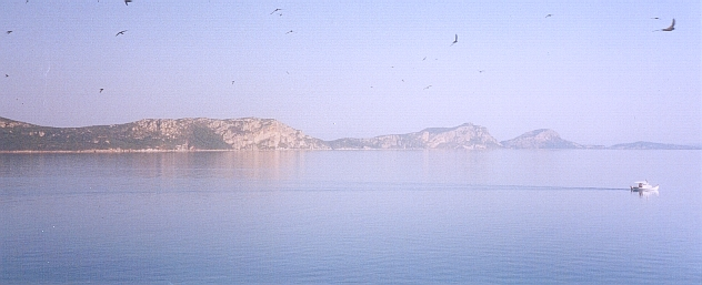 View of Sphacteria from Pylos.